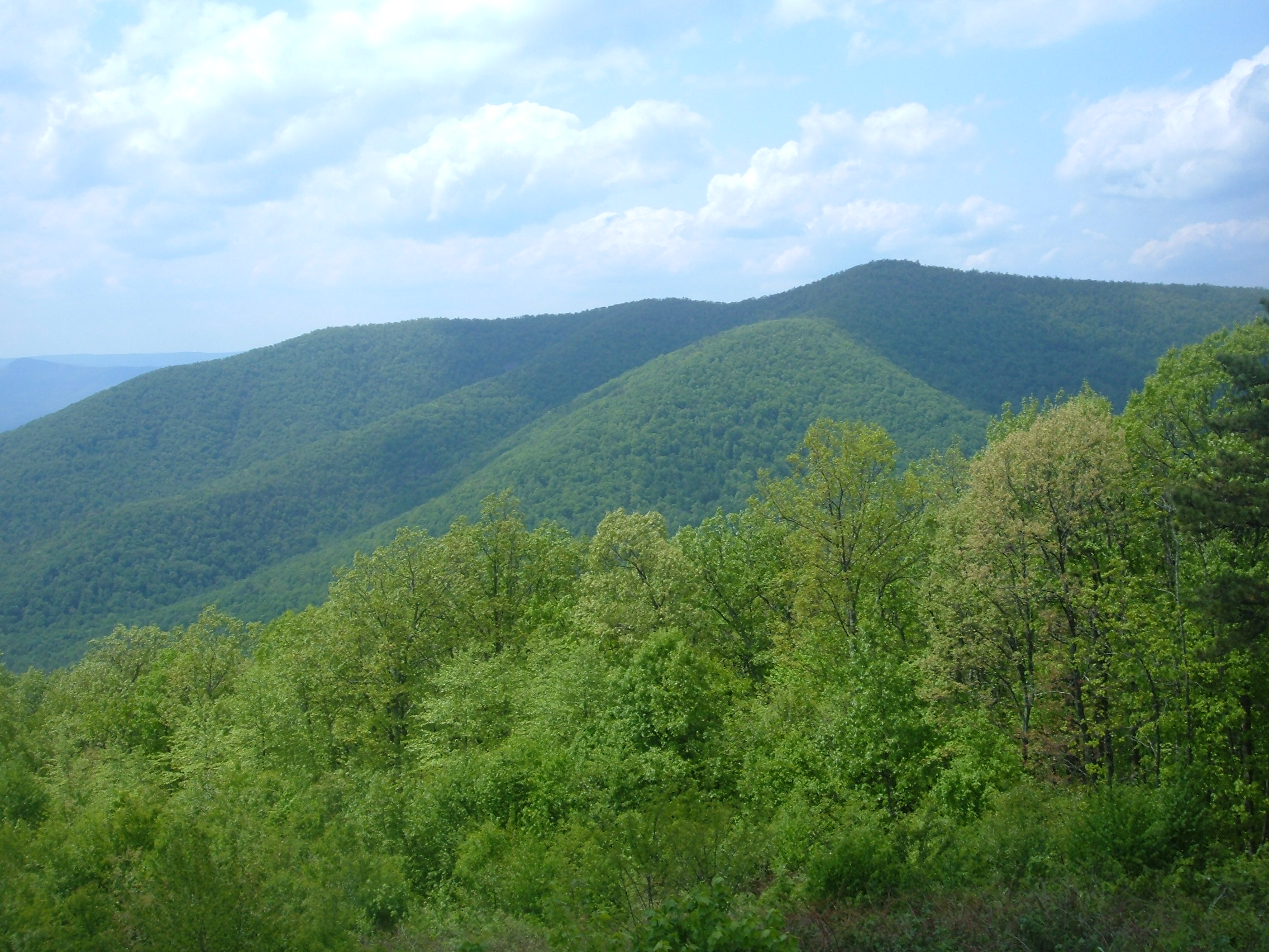 Photo by Kevin Borland. Taken from Jeremy's Run Overlook along Skyline Drive.